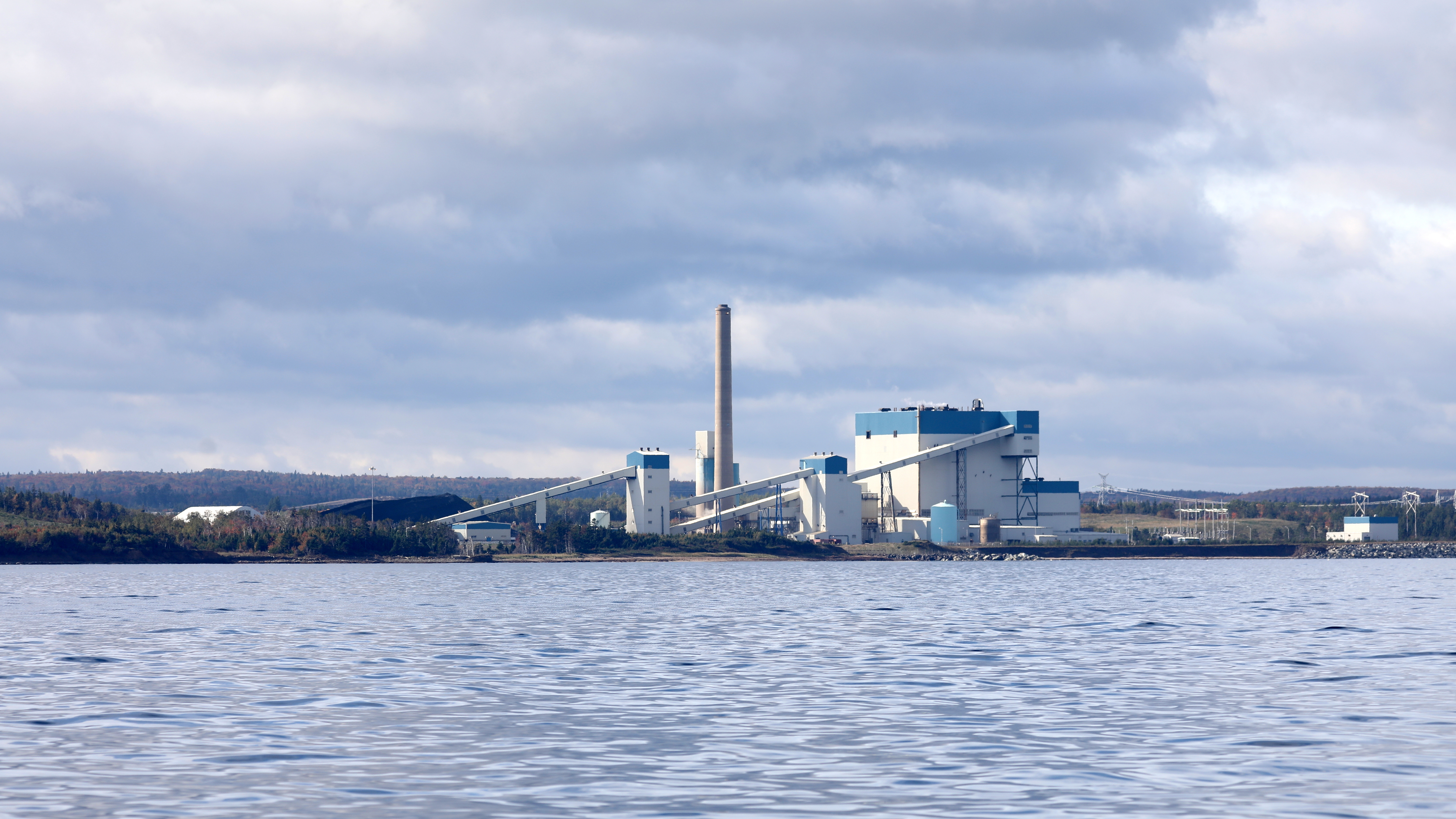 Point Aconi Generating Station seen from the Cabot Strait off of Cape Breton Island, Nova Scotia, Canada. The Point Aconi Generating Station is a 165 MW Canadian electrical generating station located in the community of Point Aconi, Nova Scotia, a rural community in the Cape Breton Regional Municipality. A thermal generating station, the Point Aconi Generating Station is owned and operated by Nova Scotia Power Corporation. It opened on August 13, 1994 following four years of construction. The Point Aconi Generating Station is situated on the shores of the Cabot Strait at the northeastern tip of Boularderie Island, located approximately 2 km (1.2 mi) west of the headland named Point Aconi and 2 km (1.2 mi) east of the headland named Table Head. Its civic address is 1800 Prince Mine Rd, Point Aconi, NS. The facility is located at the northern terminus of Prince Mine Rd - Highway 162.